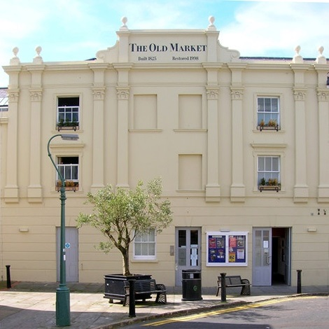 The Old Market Purpose built as a market in 1828 by Wilds and Busby for the new Brunswick development. The venture did not last long however and was soon being used as a school. It became a riding school in 1850 with the extra stories added in the late 19th century and remained so until after the First World War. It subsequently was used for smoking bacon and ham before becoming the home of a wholesale grocers until 1970. It remained derelict until 1976 when it became an arts centre who themselves folded in 1982 leaving the building derelict once more until 1999 when the building was renovated and reopened as another arts centre which it still is today. (Cropped and rotated, and reuploaded under this filename on 9 November 2013)